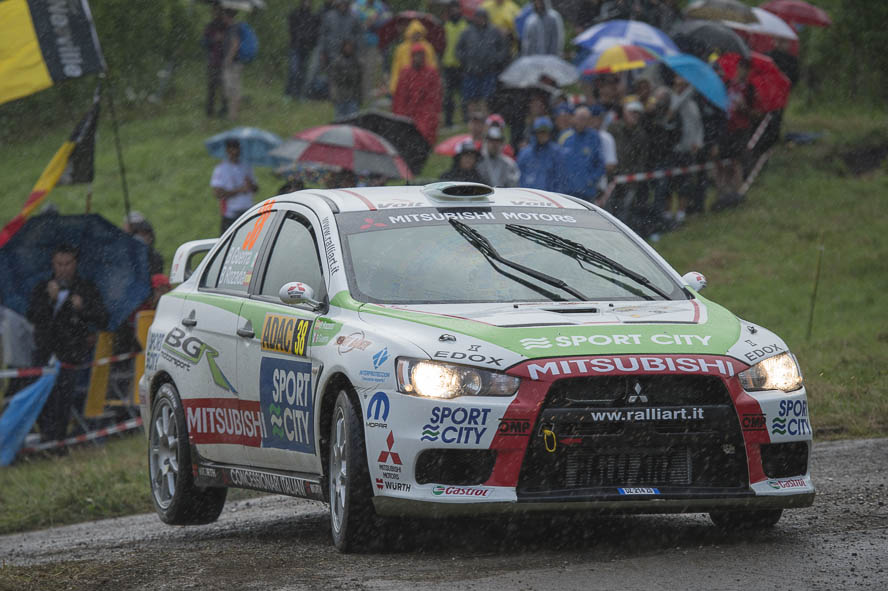 Rally Germany 2012 ADAC Rallye Deutschland,Benito Guerra,Borja Rozada,Mitsubishi Lancer Evo X,Motorsport,Rally,Rallye,Rallye Deutschland,SS7,Stein & Wein 1,WP7,WRC